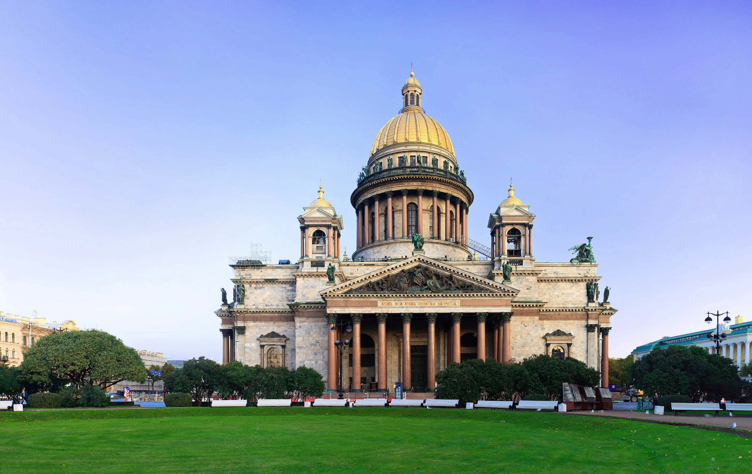 Saint Isaac's Cathedral